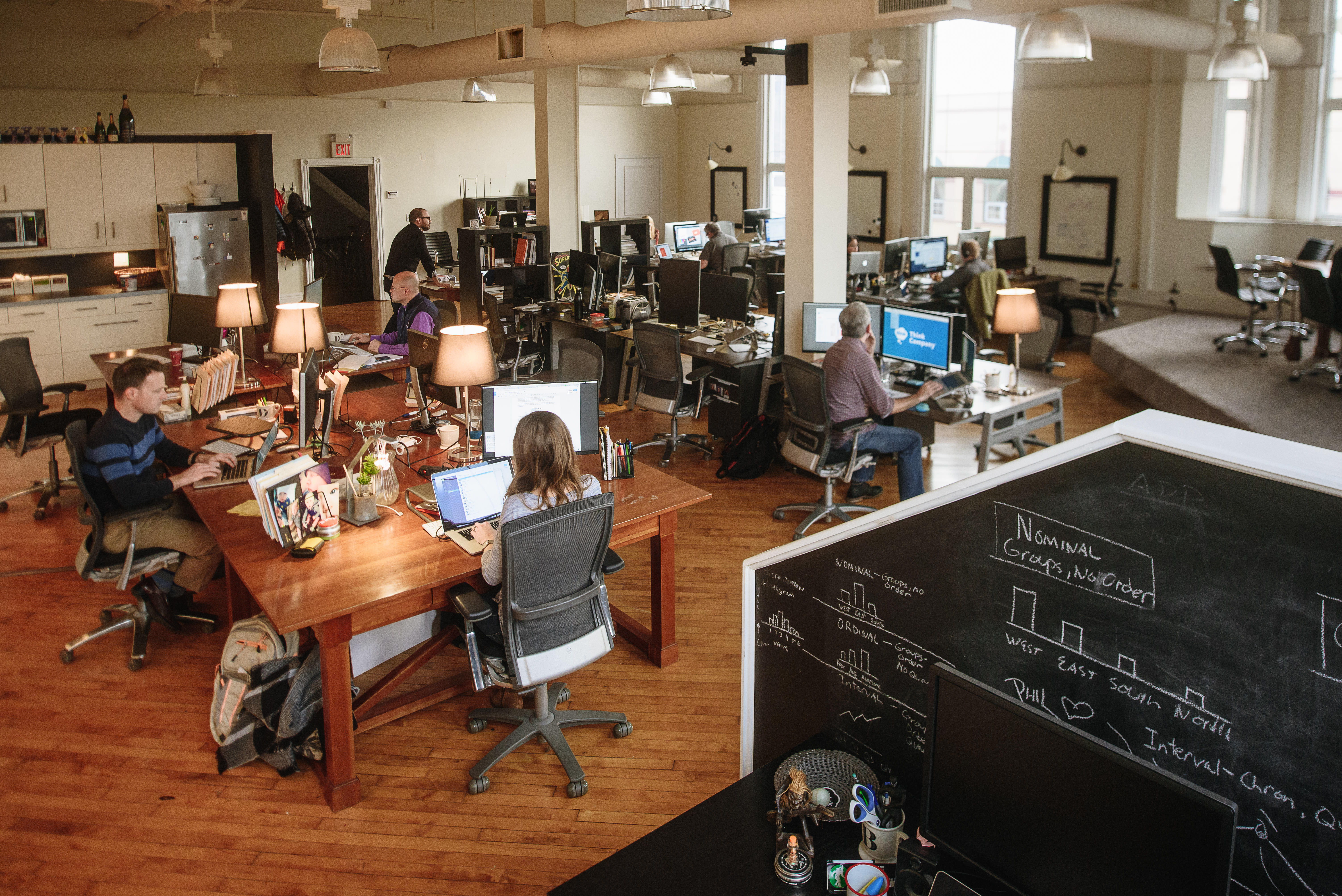 Think Company, Conshohocken Studio (2nd Floor)